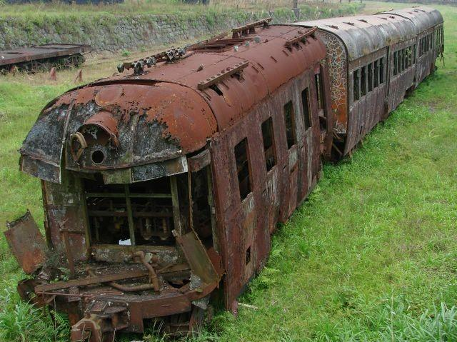 Rust.Train